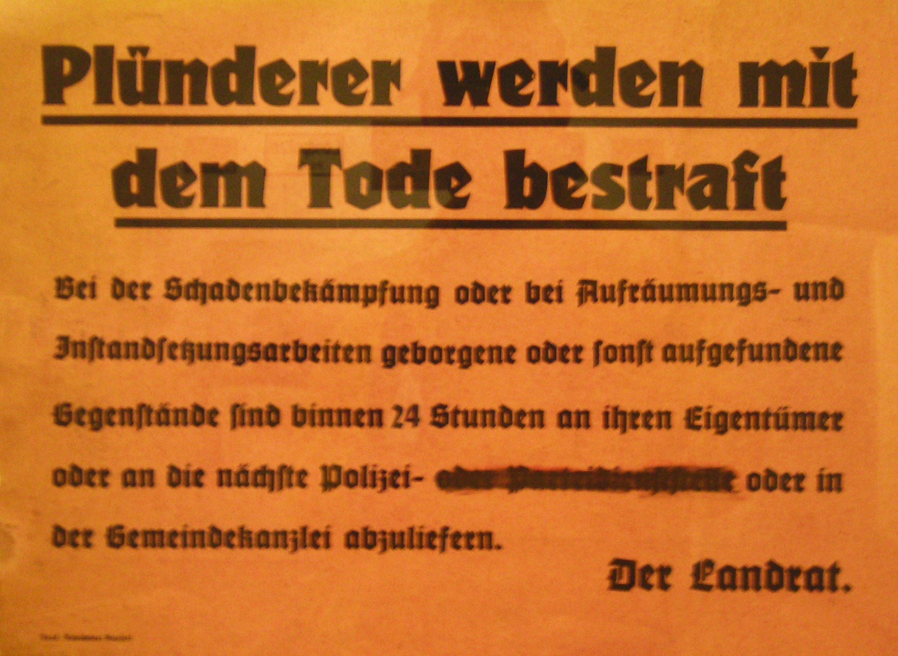 Public warning "Looters will be punished by death - Objects recovered or found otherwise during damage remediation, cleanup or restoration activities are to be delivered within 24 hours to their owner, or to the nearest police or party office or to the town hall", Bavaria, post WW II